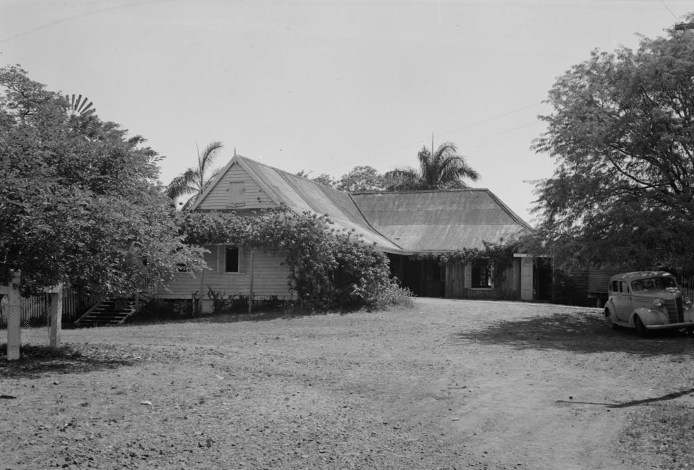 Gracemere homestead near Rockhampton. Gracemere homestead built by the Archer Brothers in the 1850s.